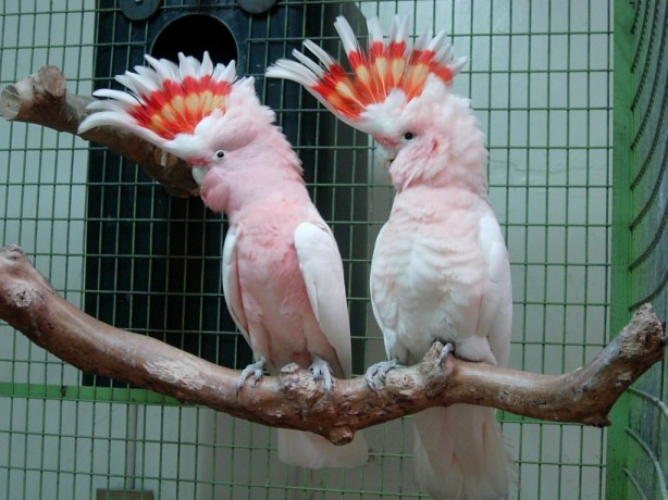 Major Mitchell's Cockatoo (also known as Leadbeater's Cockatoo or Pink Cockatoo). Two in a cage with a nestbox.